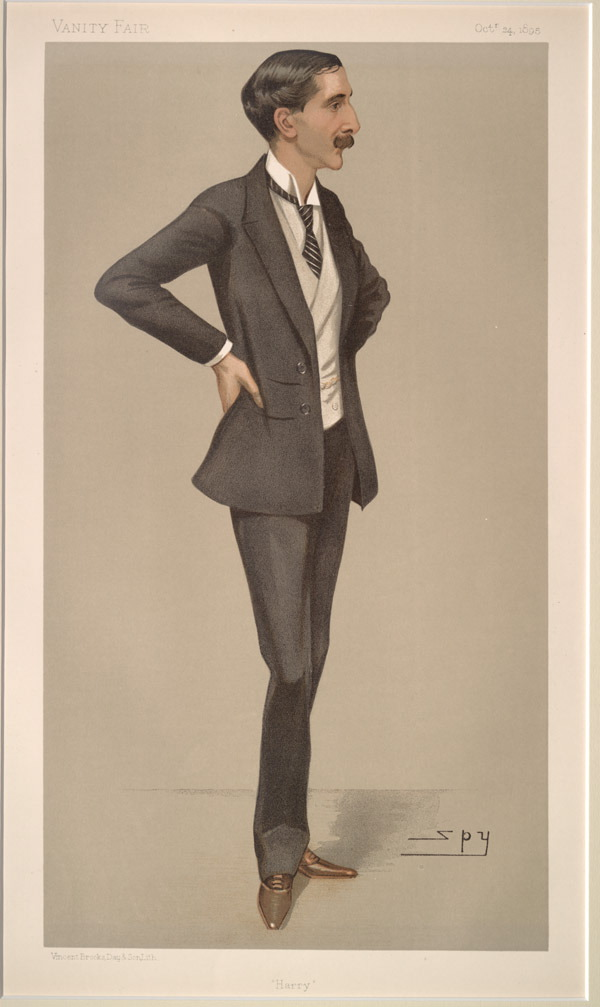 Statesmen No.659: Caricature of Mr James Mellor Paulton MP. Caption reads: "Harry"